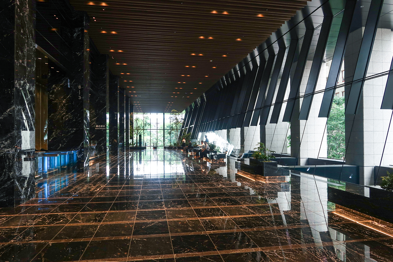 Hibiya Park Front Office lobby